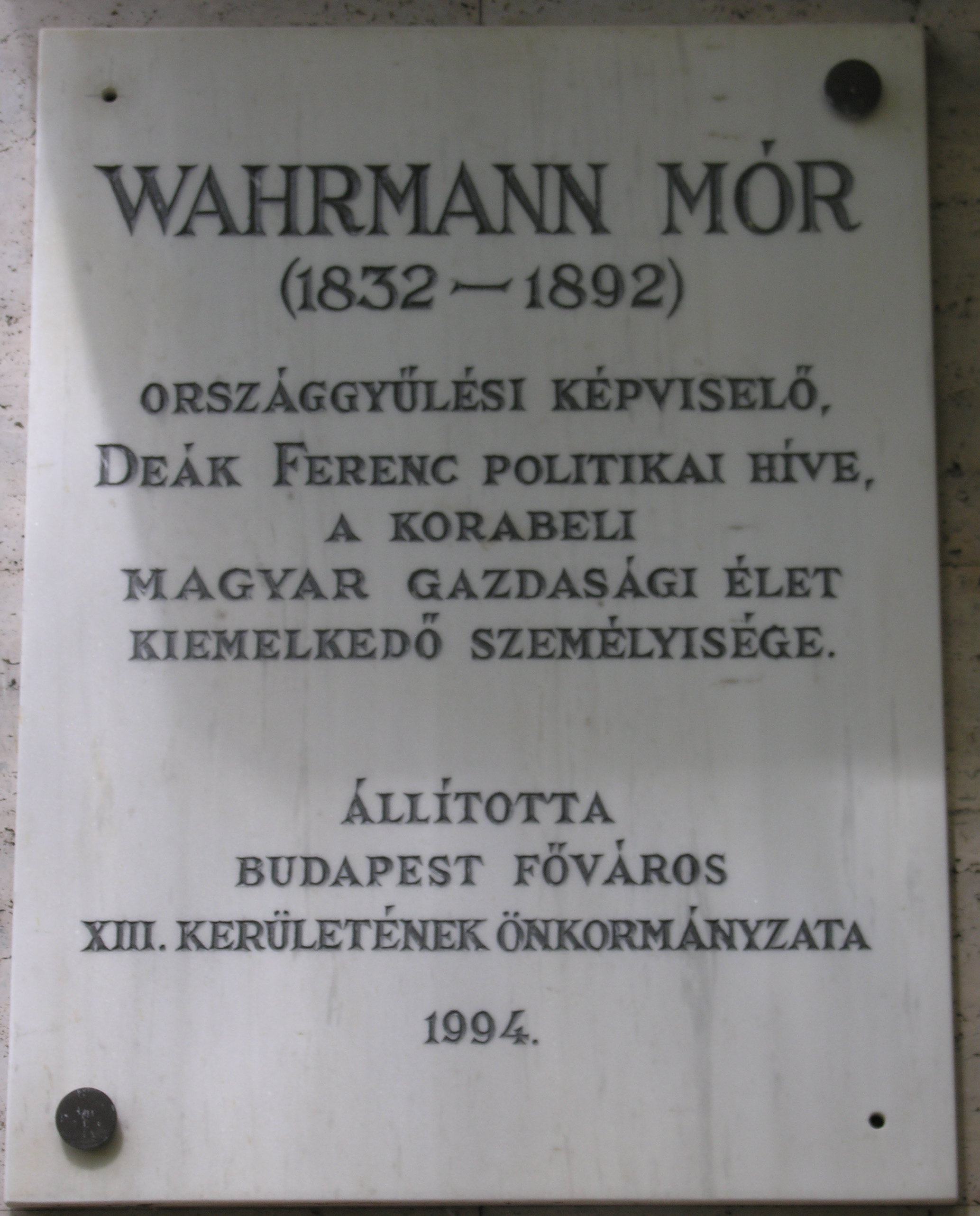 Commemorative plaque of Mór Wahrmann in Budapest District XIII, Pozsonyi Street No 53 (on the side of Wahrmann Passage)